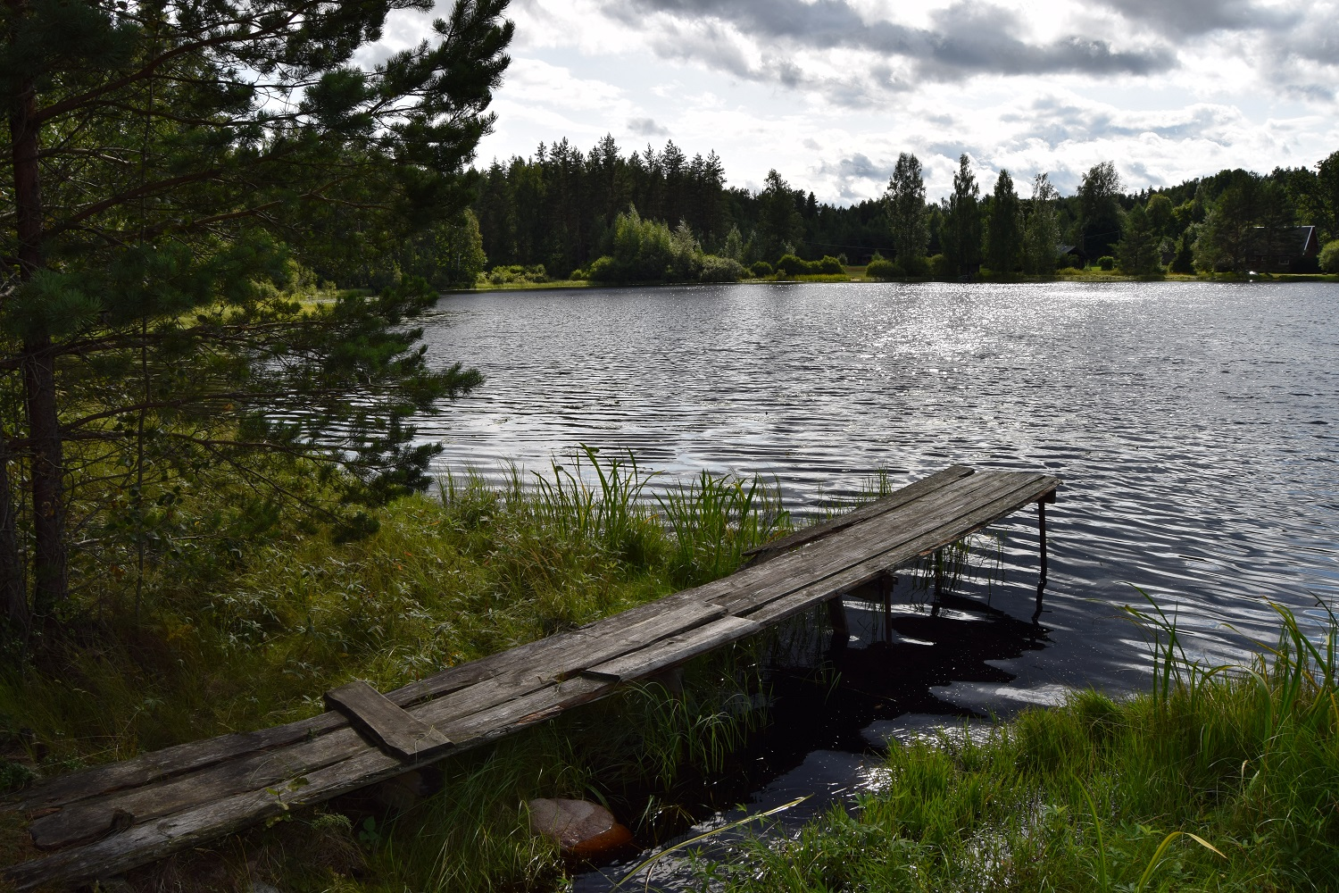 Koolma järv (2017)